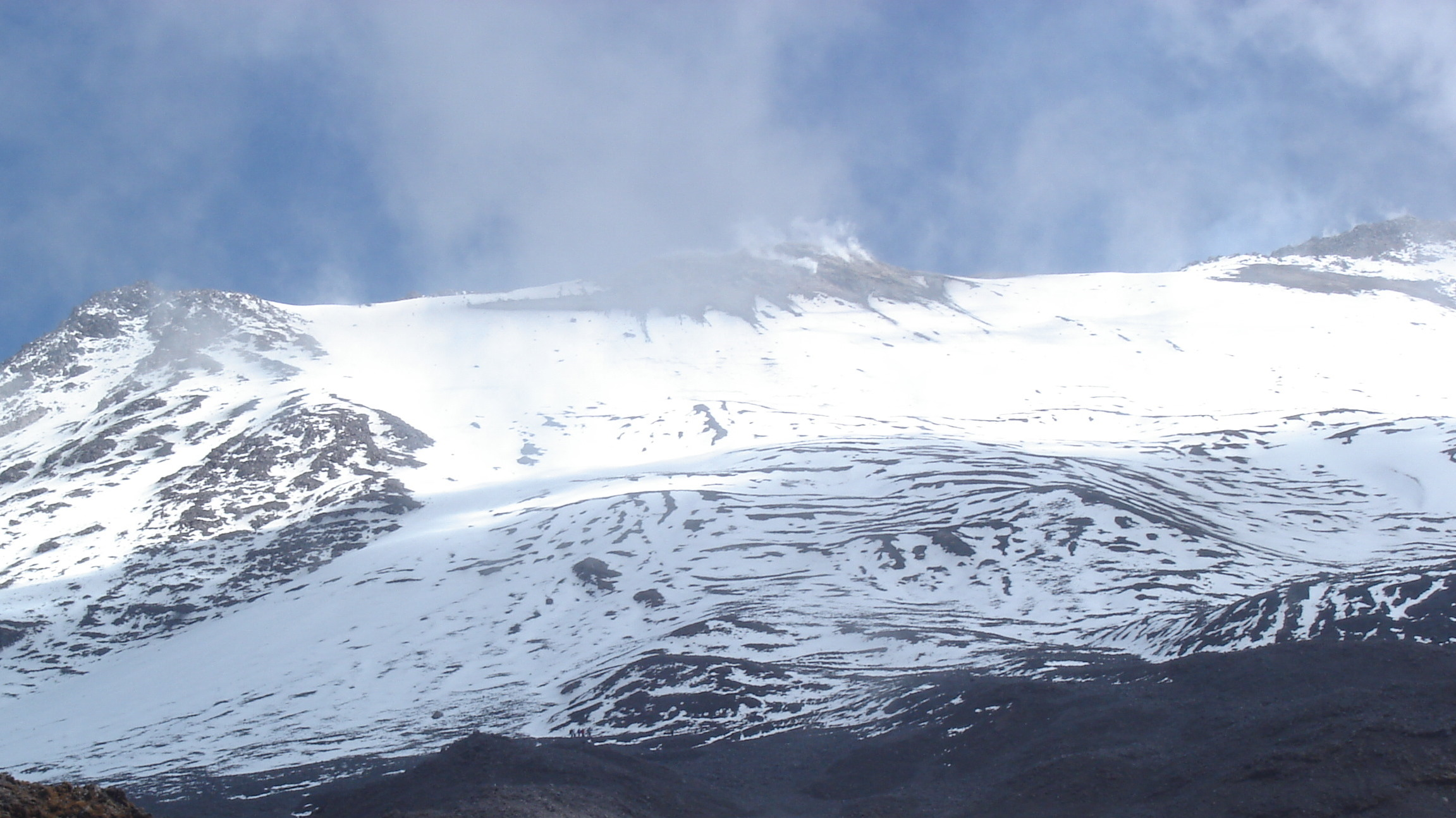 Eruptions of Sangay (seen from south ridge)